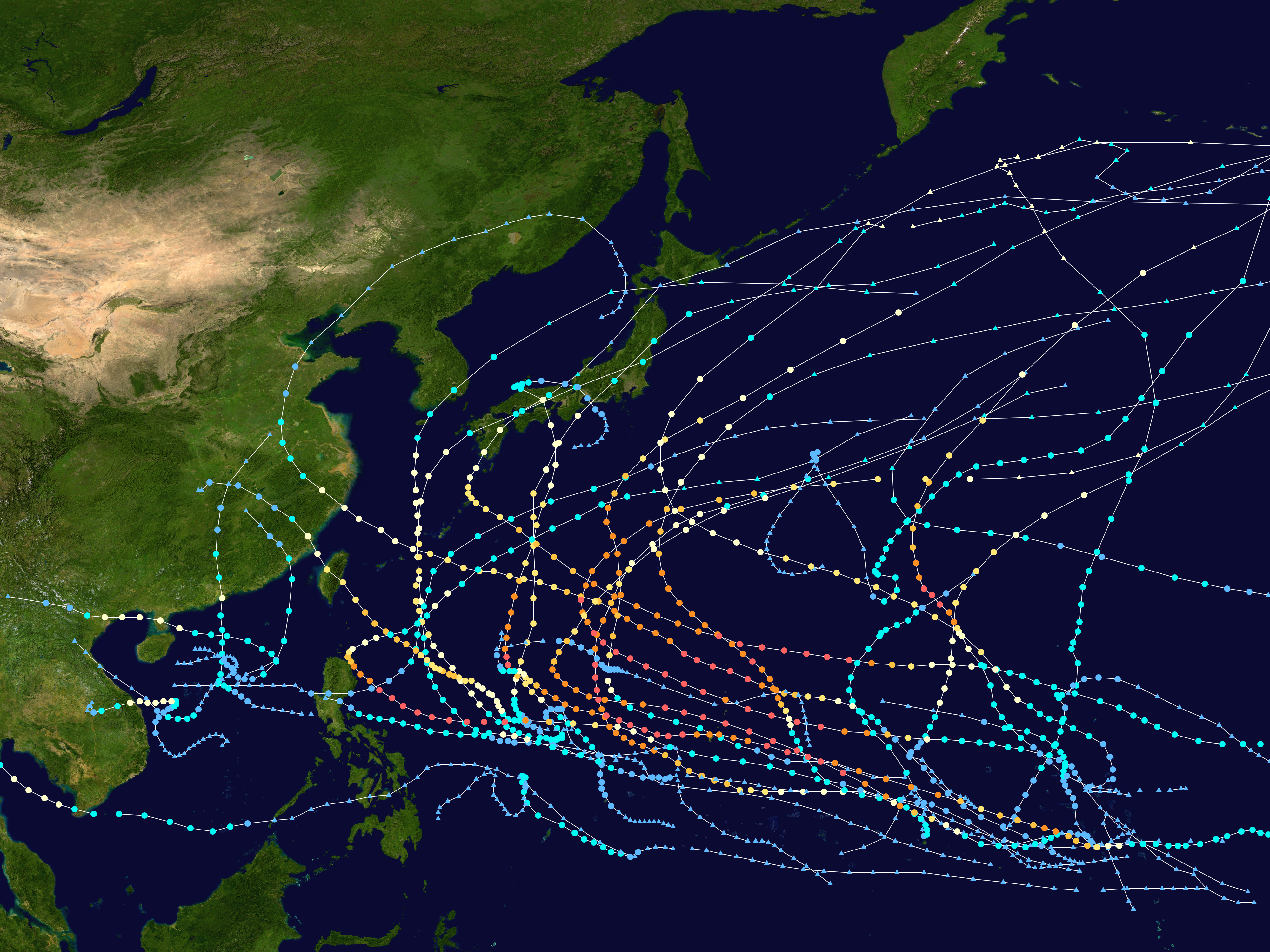 This map shows the tracks of all tropical cyclones in the 1997 Pacific typhoon season. The points show the location of each storm at 6-hour intervals. The colour represents the storm's maximum sustained wind speeds as classified in the Saffir-Simpson Hurricane Scale (see below), and the shape of the data points represent the type of the storm. Saffir–Simpson scale Tropical depression≤38 mph≤62 km/h Category 3111–129 mph178–208 km/h Tropical storm39–73 mph63–118 km/h Category 4130–156 mph209–251 km/h Category 174–95 mph119–153 km/h Category 5≥157 mph≥252 km/h Category 296–110 mph154–177 km/h Unknown Storm type Tropical cyclone Subtropical cyclone Extratropical cyclone / Remnant low / Tropical disturbance / Monsoon depression